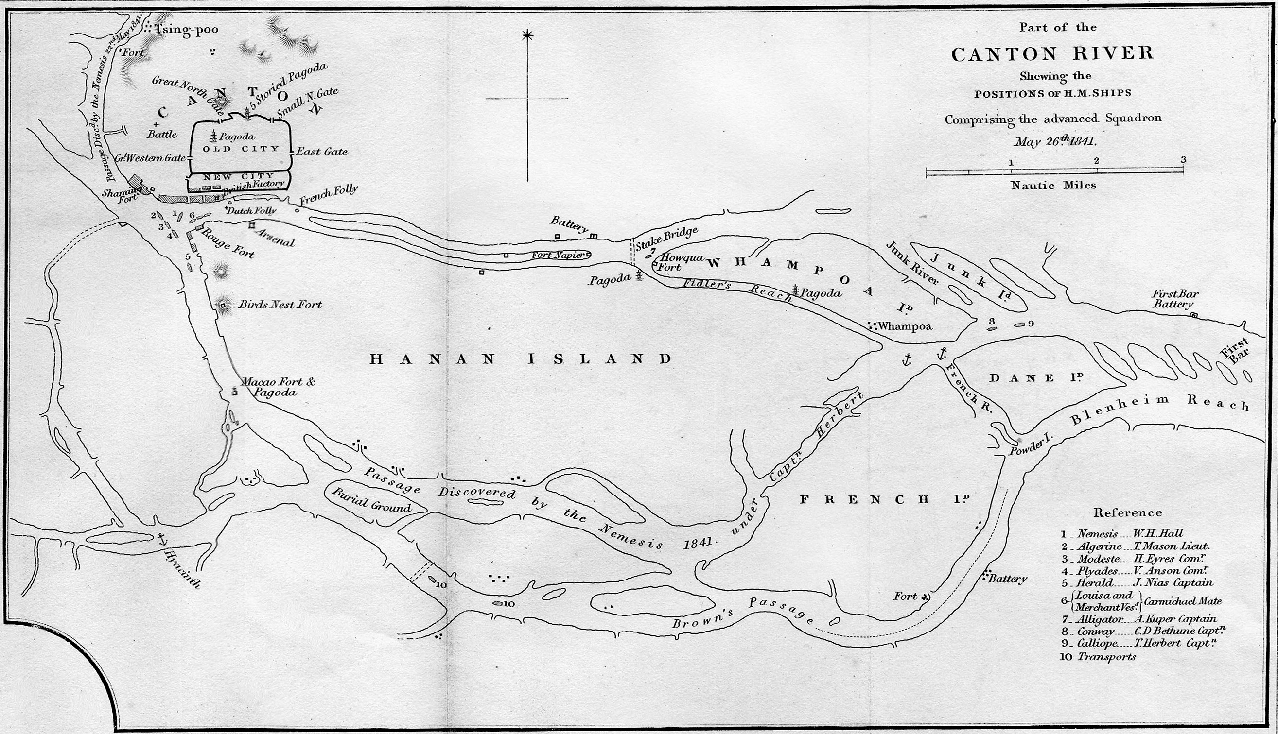 Part of the Canton River, showing the position of British ships comprising the advanced squadron, 26 May 1841.